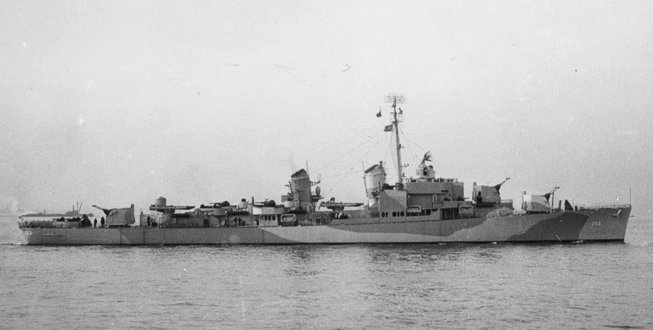 The U.S. Navy destroyer USS John R. Pierce (DD-753) after delivery from Bethlehem Steel off Staten Island, New York (USA), on 22 November 1944. The destroyer was commissioned on 30 December 1944. She is painted in Camouflage Measure 33a.